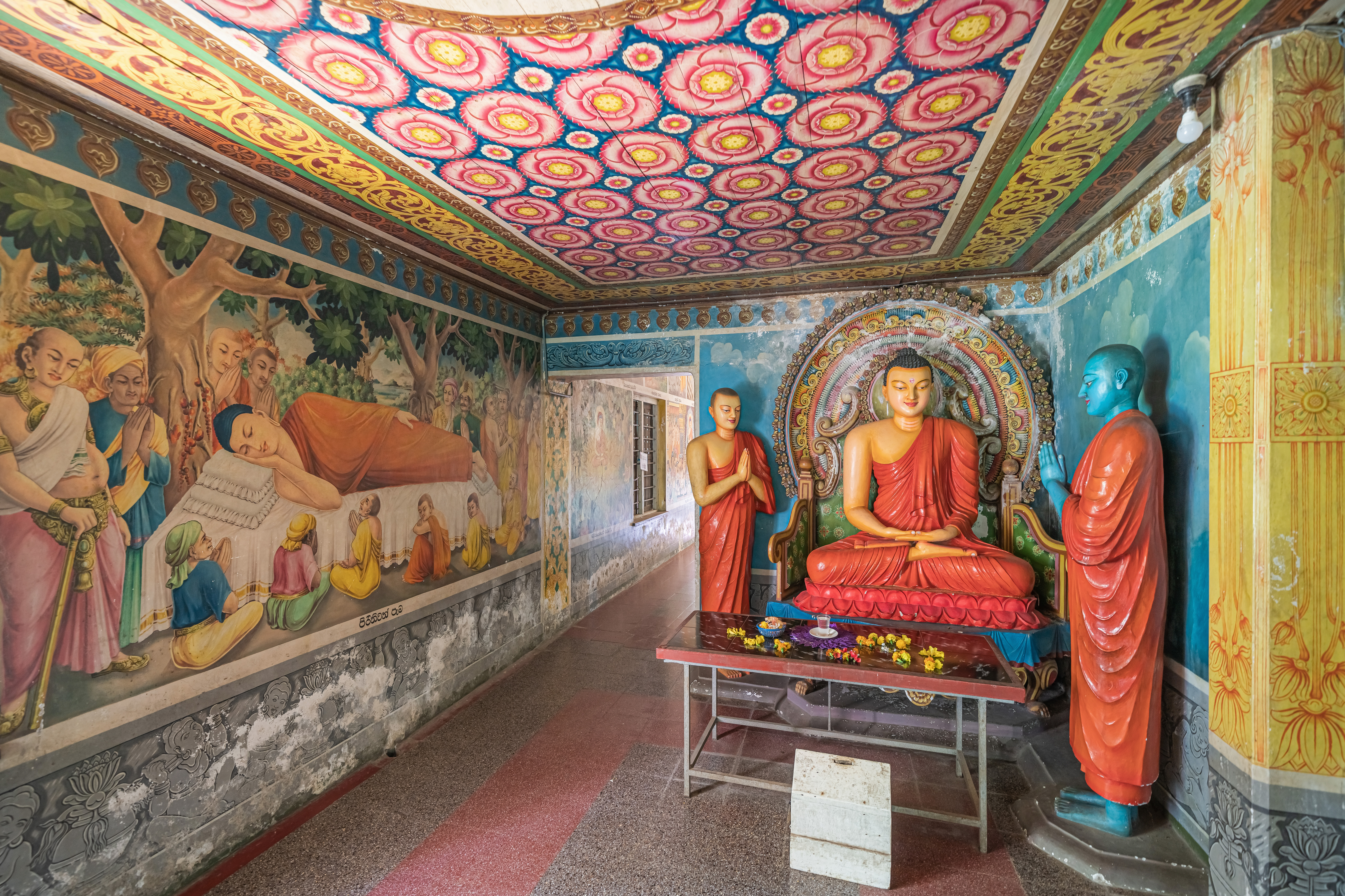 Dhowa rock temple near Ella, Sri Lanka: interior